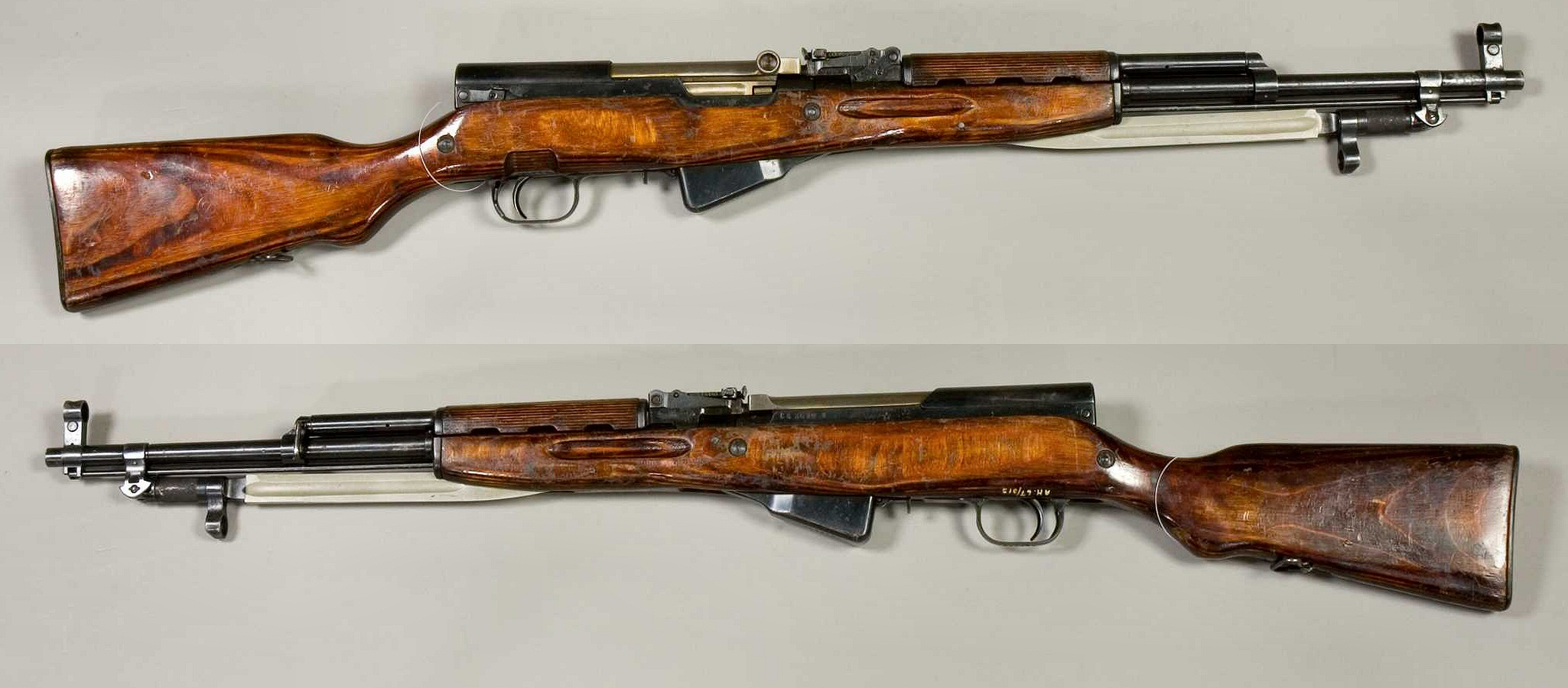 SKS Russian semi-automatic rifle (1945). Caliber 7.62x39mm. From the collections of Armémuseum (Swedish Army Museum), Stockholm, Sweden.